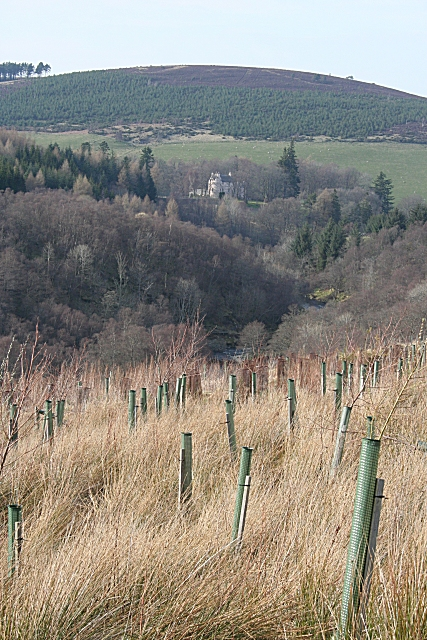 Beldorney Castle Seen in the distance from the opposite side of the deep glen of the River Deveron.